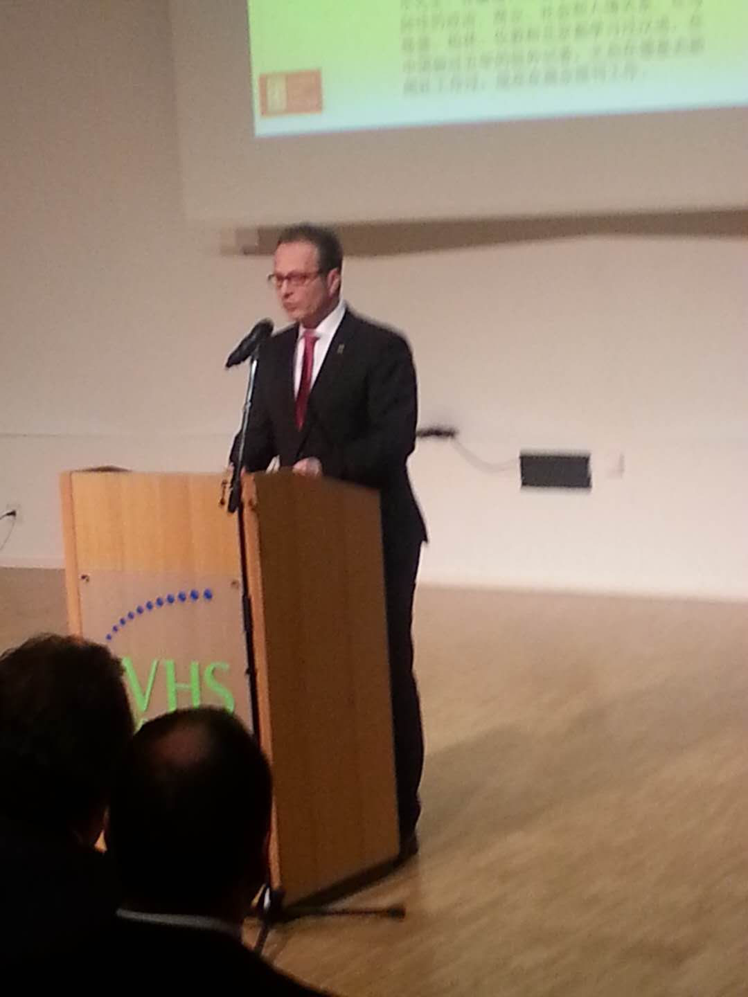 Reiner Breuer holds a speech for China Day Neuss 2019 at VHS Neuss on 9 February 2019